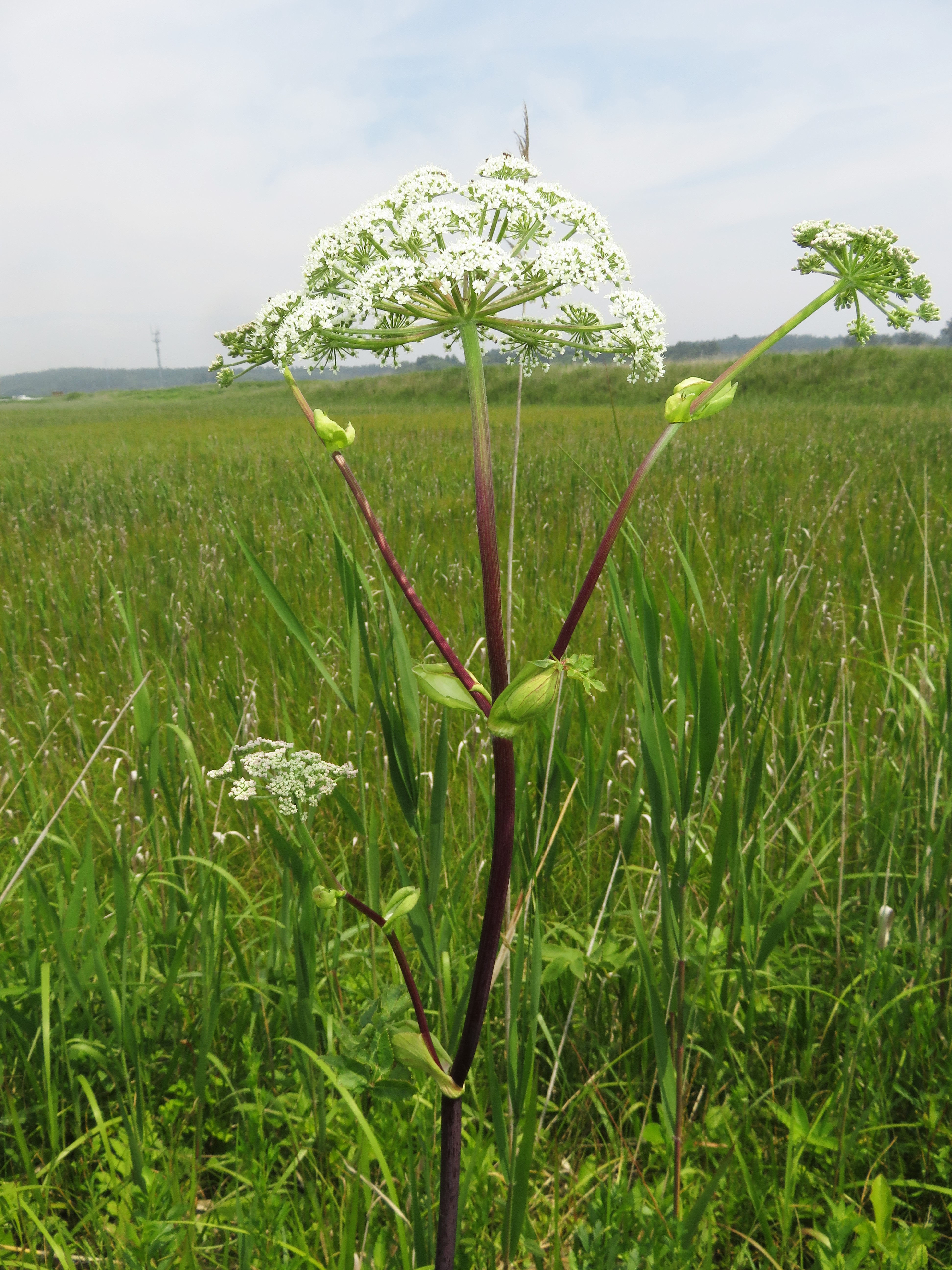 Angelica sachalinensis, Kamikita area, Aomori pref., Japan